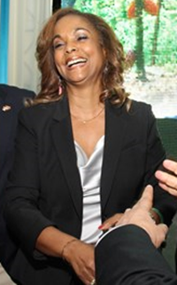 Sharing a laugh From left to right: Assistant Secretary of State for Economic and Business Affairs Charles Rivkin; Deputy Chairman of the Tourism Development Company Janelle Commissiong-Chow (in picture); Chairman of the Massy Group Robert Bermudez; and Trinidad and Tobago's Minister of Planning and Sustainable Development Bhoendradatt Tewarie, at the Americas Competitiveness Forum VII, Port of Spain, Trinidad.